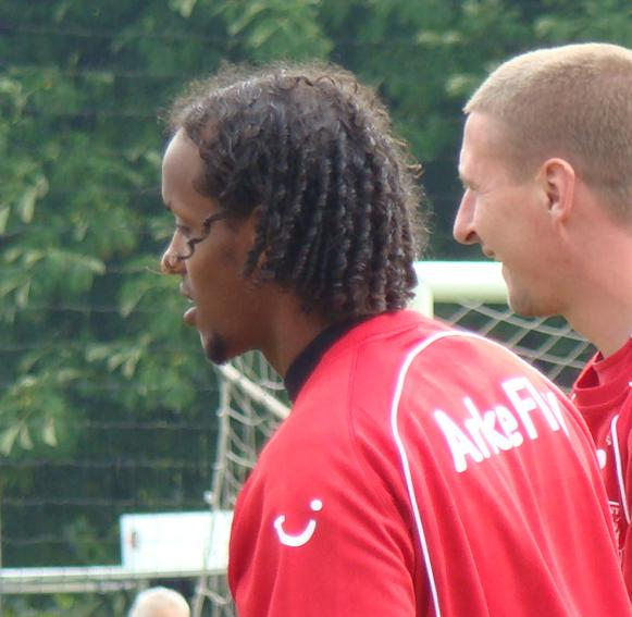 Image of the FC Twente-player Youssouf Hersi